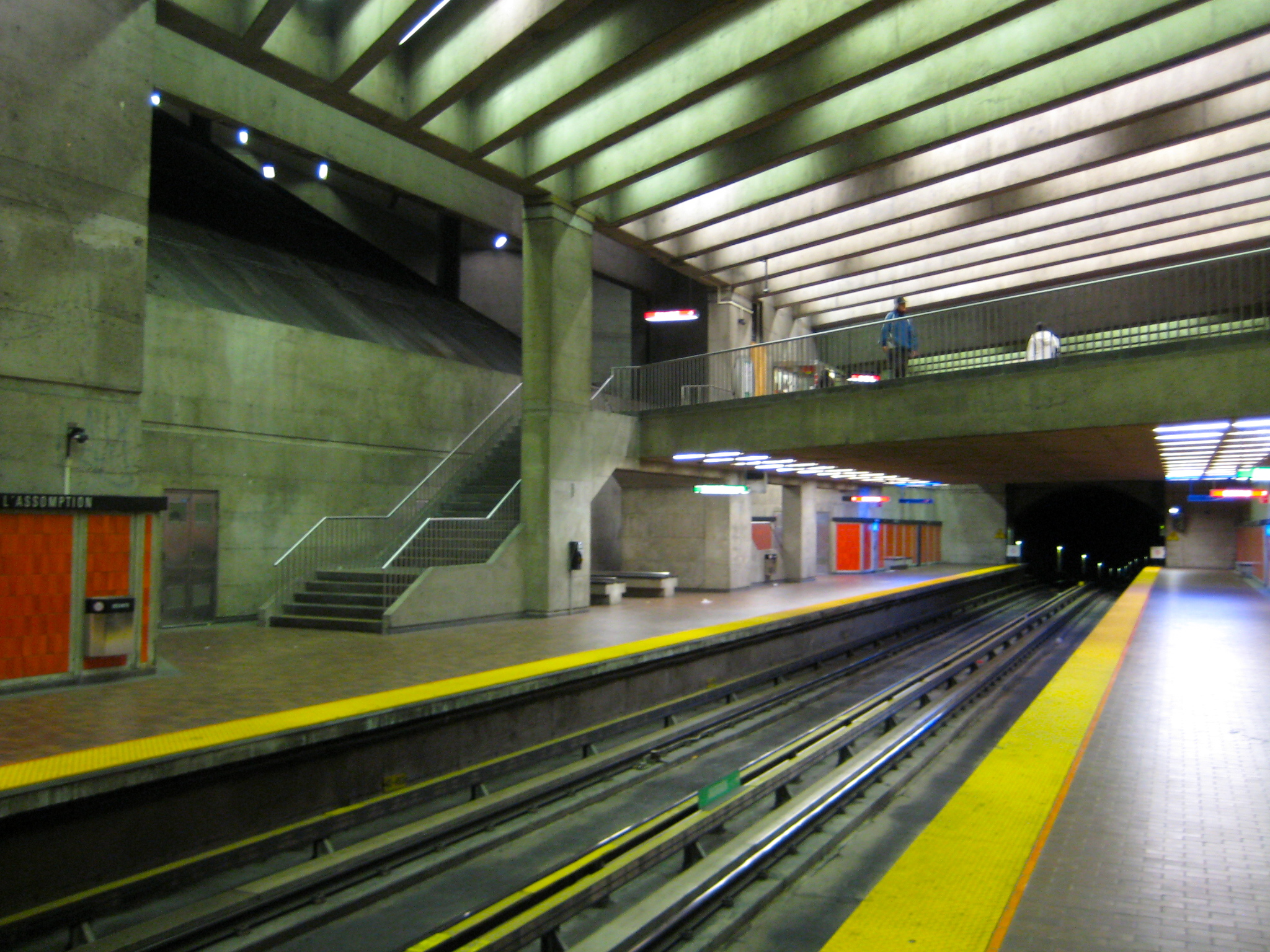 l'Assomption Metro station platform.